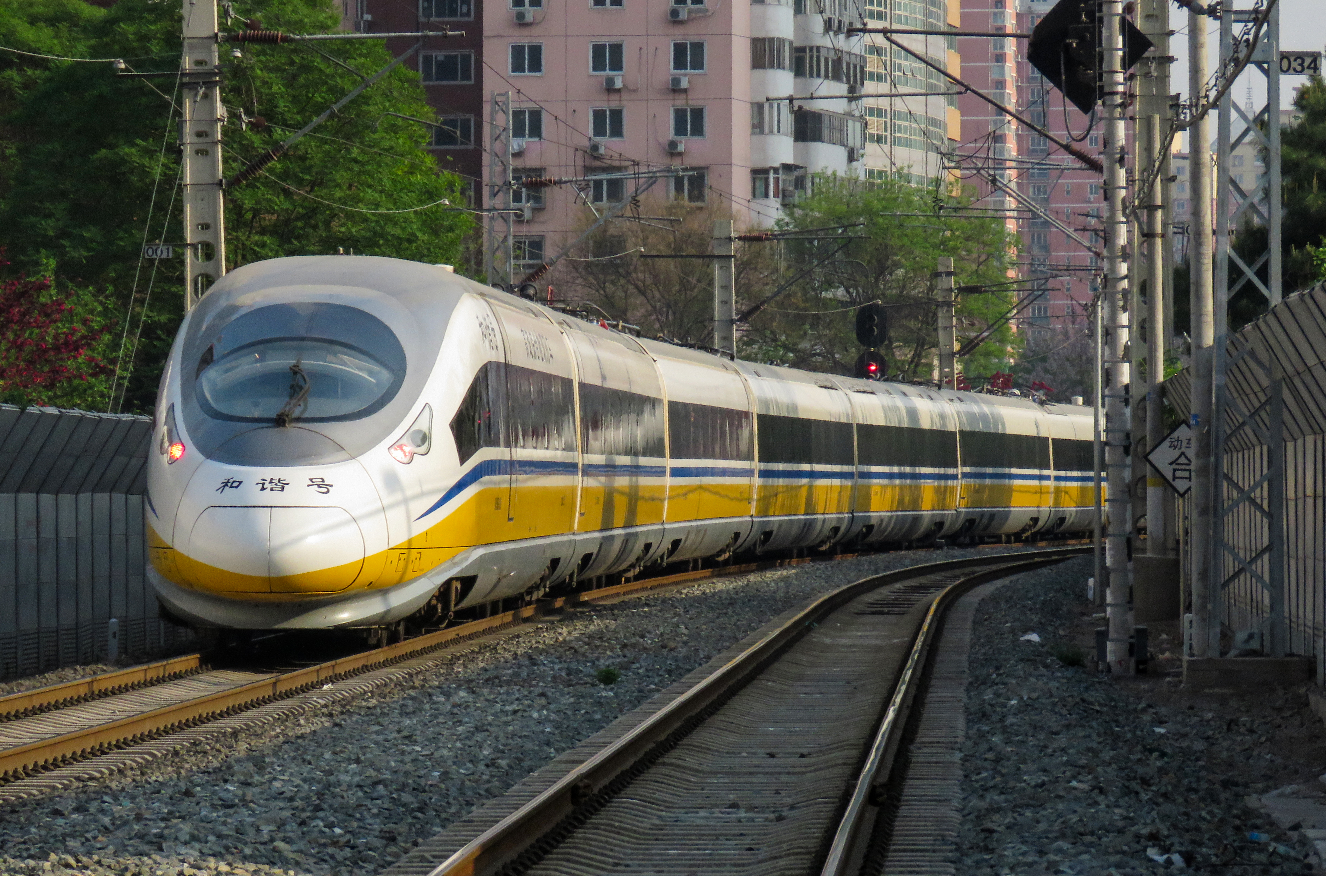 00203, hauled by DF7G-5037, to Beijing South or somewhere else. What did this "Dr. Yellow" do at Beijing West Station?